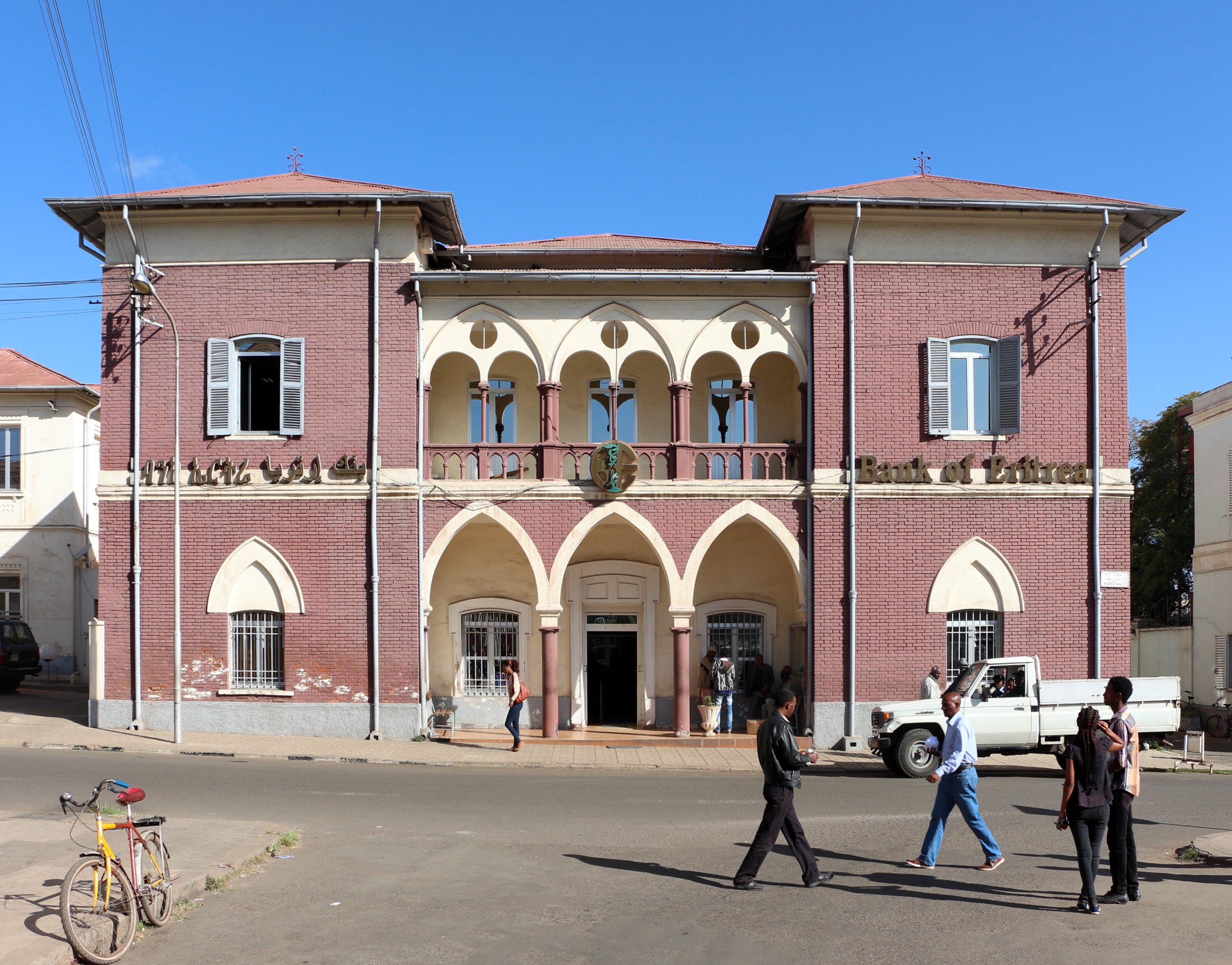 Buildings in Asmara